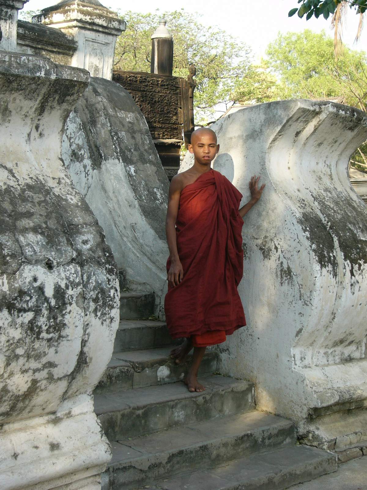 Young monk in front of the Bagaya Kyaung monastery. It is in Burma, near Mandalay. The building itself was made of teakwood, except the stairs.